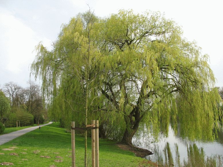 Weeping willow at the „Blauer See“ in Duisburg, Germany.